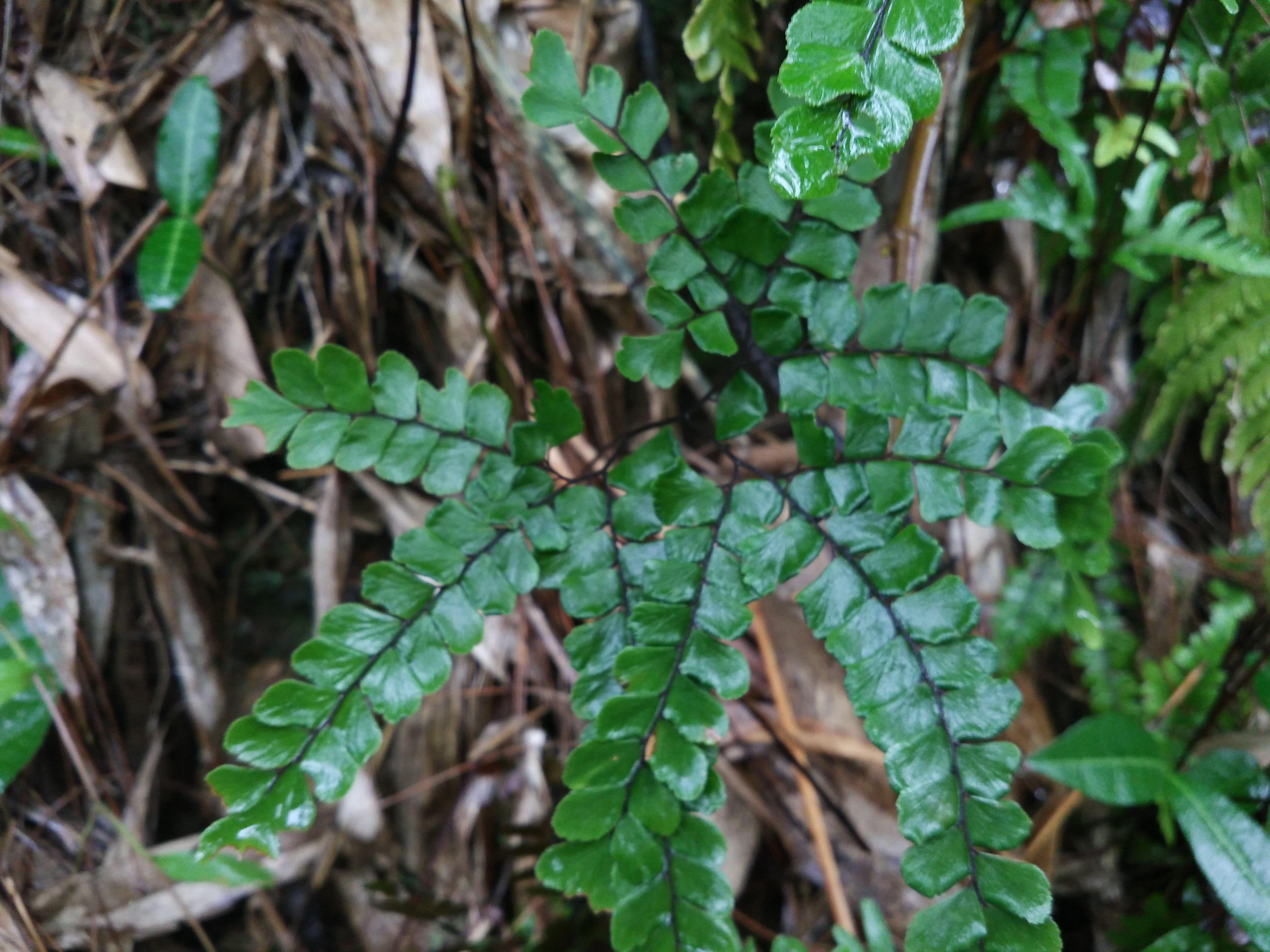 Fern Adiantum flabellulatum. Botanical Garden of the Guanxi Institute of Botany, China. Author : J.X. Liao